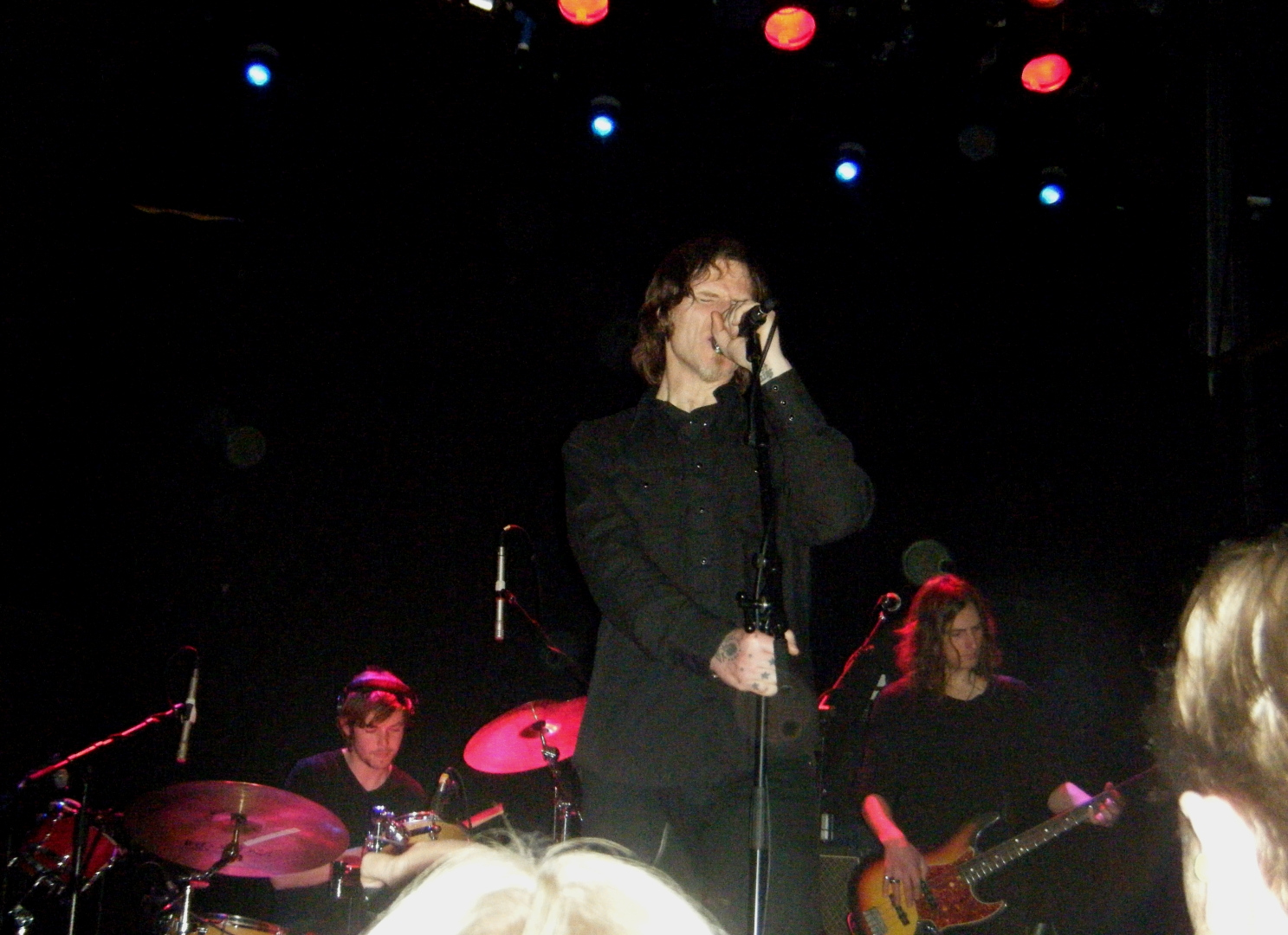 Mark Lanegan performing live at The Academy in Dublin, Ireland on 7 March 2012.